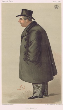 Caricature of The Marquis of Ailesbury. Caption read "the Marquis".